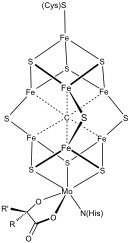 The line-angle structure of the FeMo cofactor